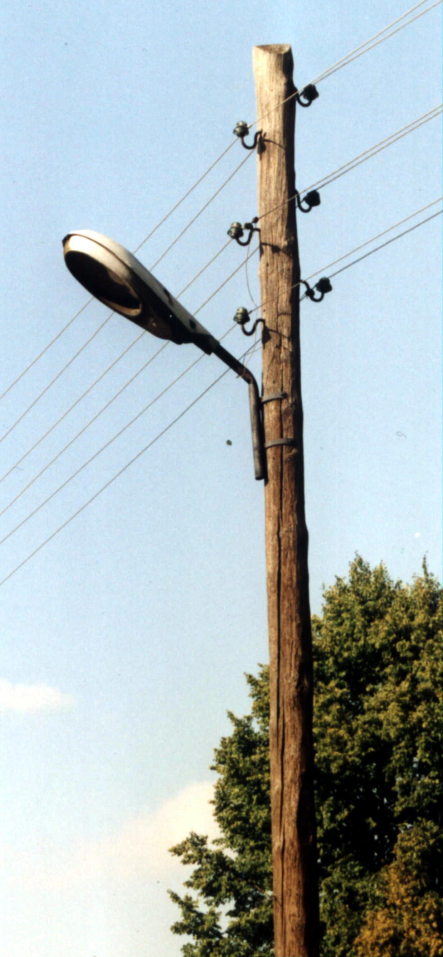 Streetlamp in Kule cemetery in Częstochowa, Poland.